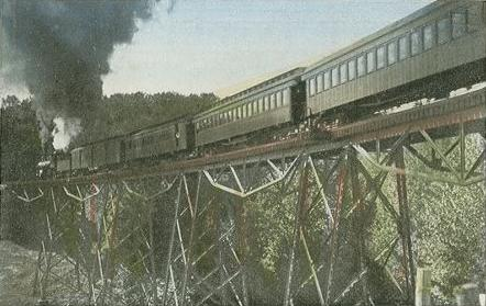 Alcott Trestle, Hancock, NH; from a c. 1905 postcard.